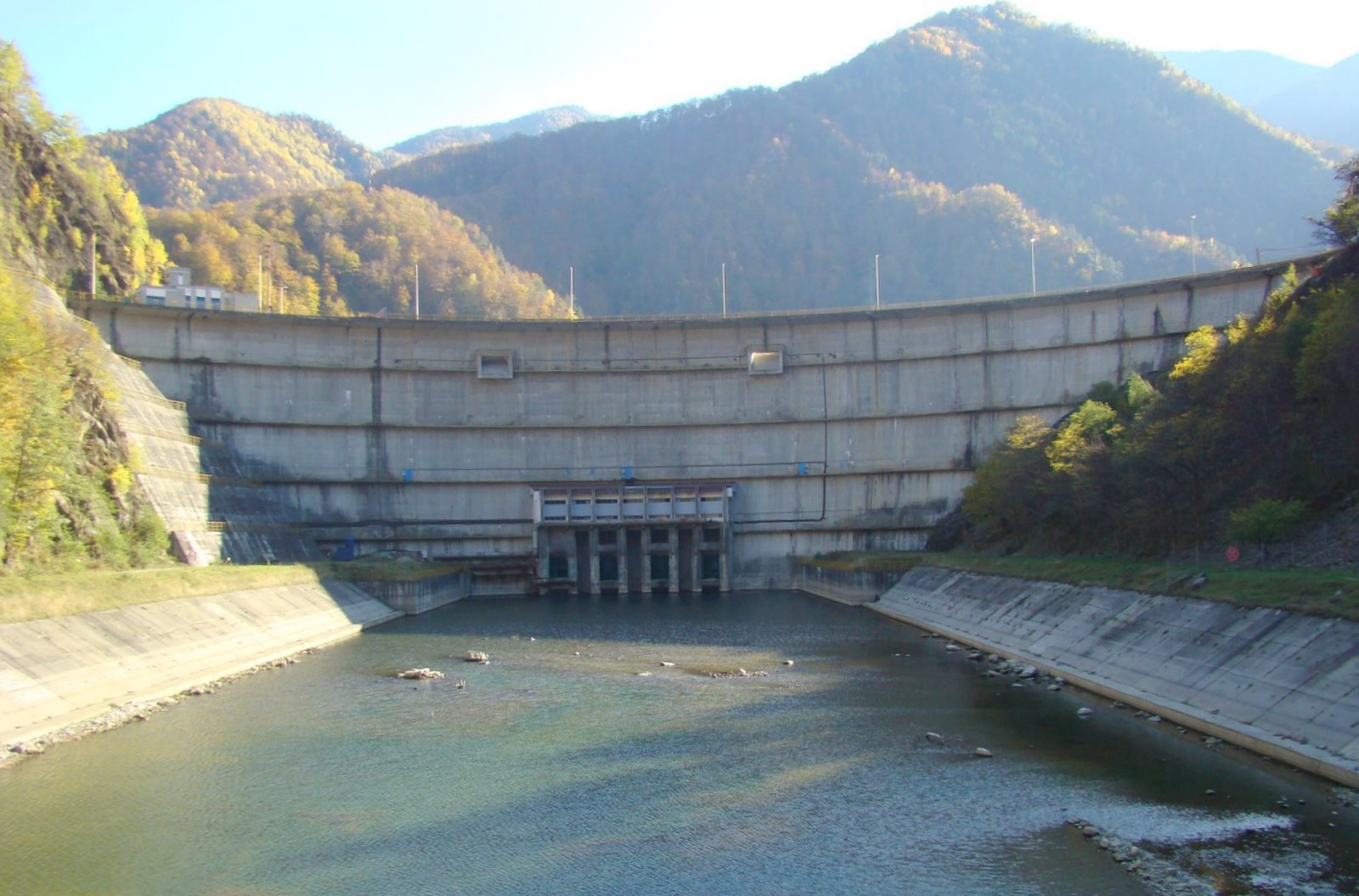 Brădişor dam, Vâlcea county, Romania